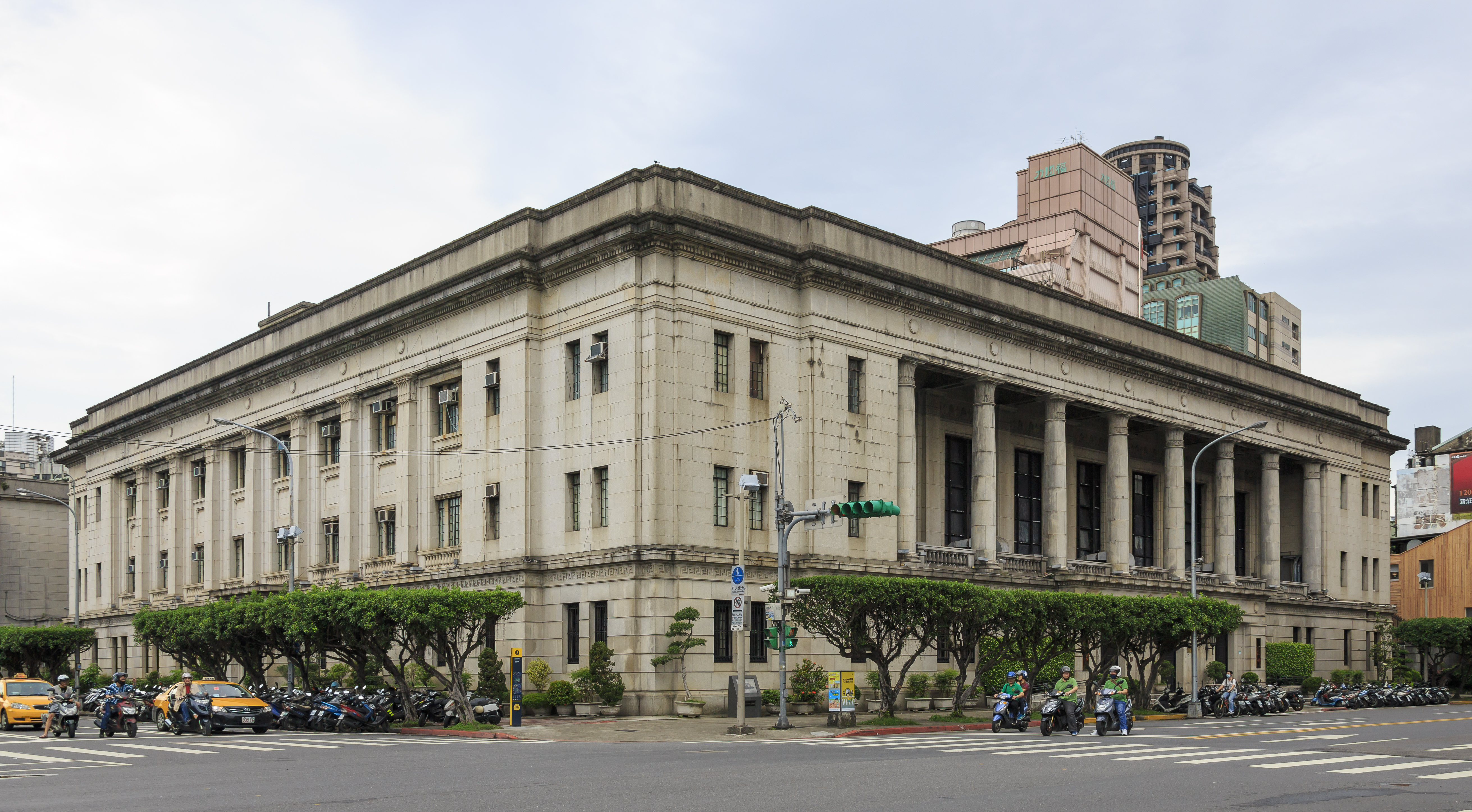 Taipei, Taiwan: Head office building of the Bank of Taiwan (台灣銀行)